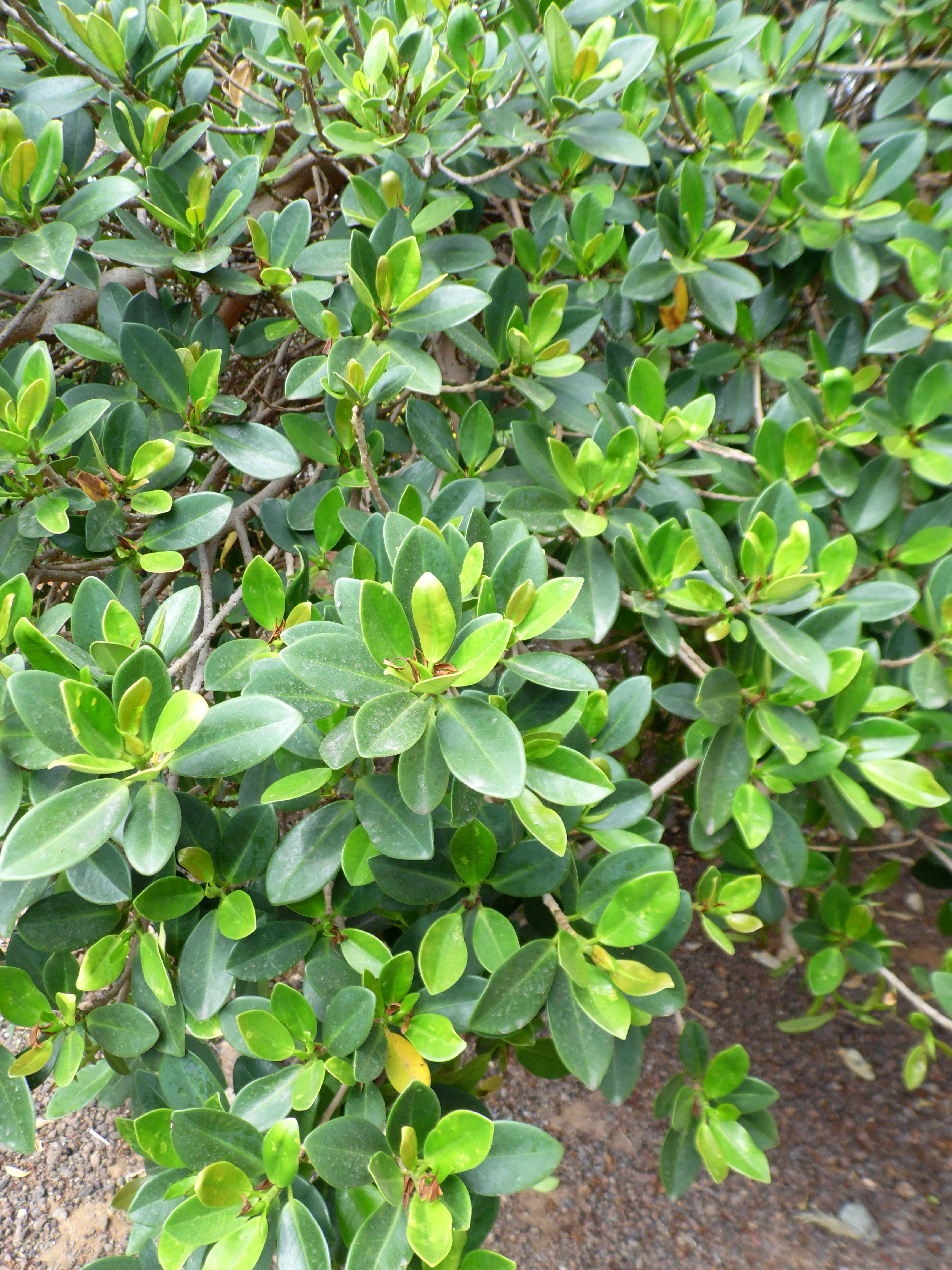 Ficus americana in Parque Botánico de Maspalomas (Gran Canaria)